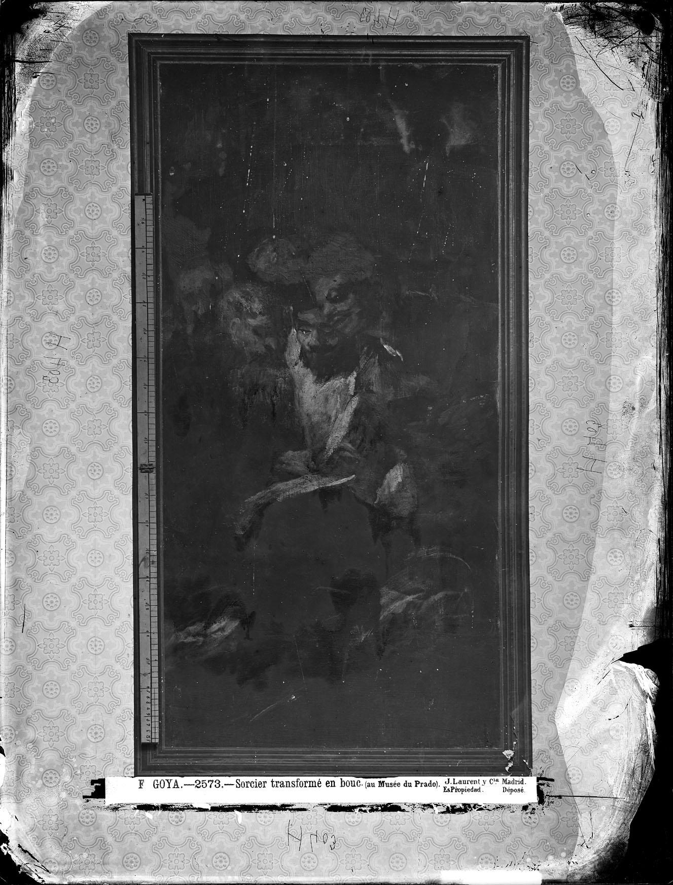 Photo of mural painting "Men Reading" or "The Reading" (Spanish: La Lectura) or "Politicians" from the series of Black Paintings of Goya. The original glass negative was taken by J. Laurent, in 1874, inside of the house of the Quinta de Goya. Years later, around 1890, the successors of Laurent added a label indicating "Prado Museum". But photographic reproduction is 1874.